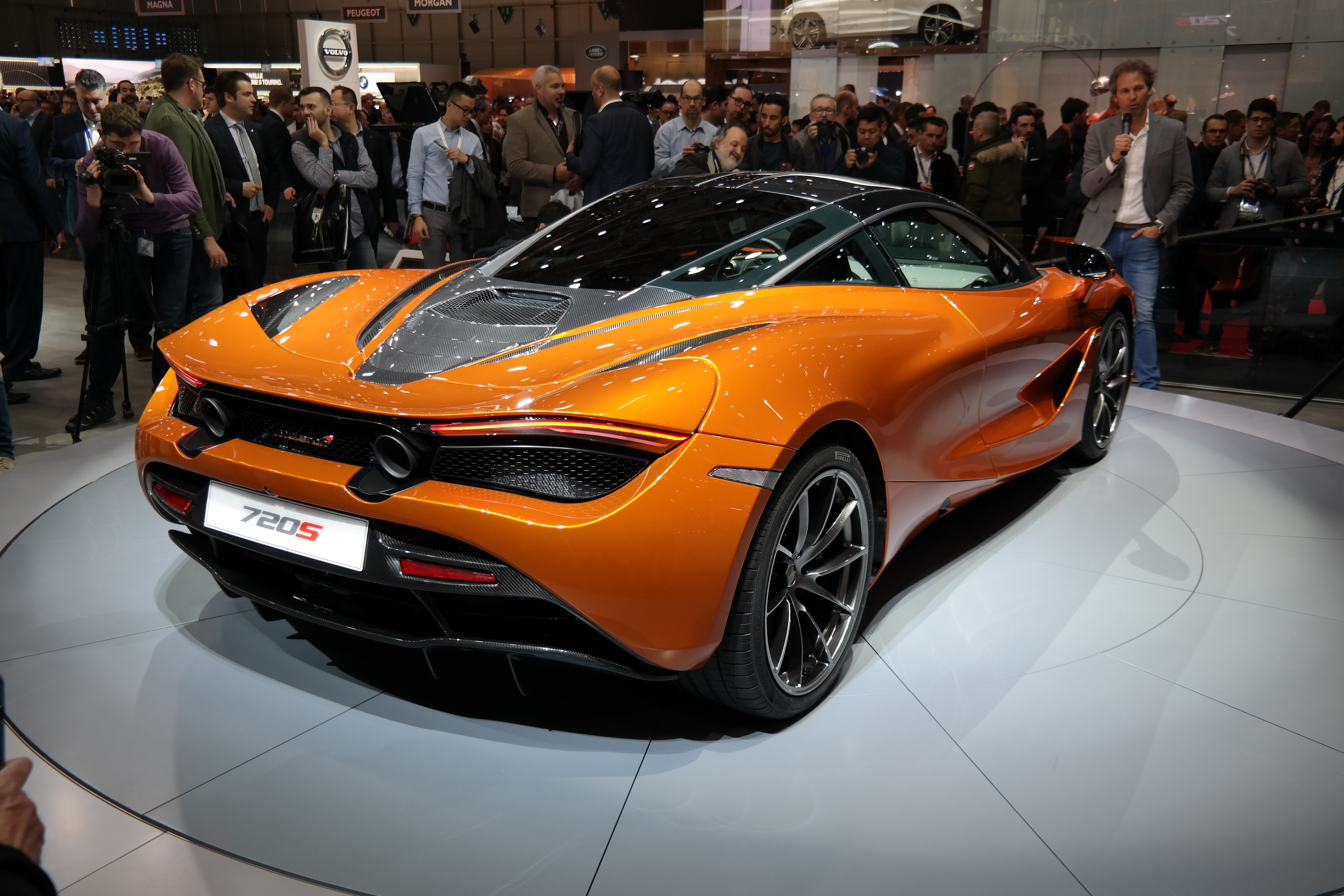 Geneva Motor Show 2017 (photo taken on the first press day)